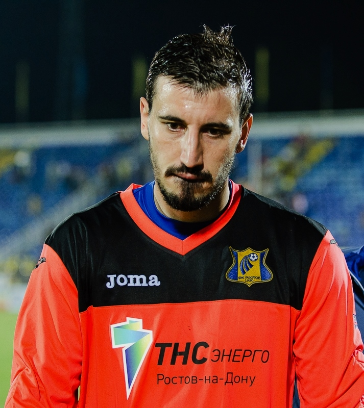 Soslan Djanaev